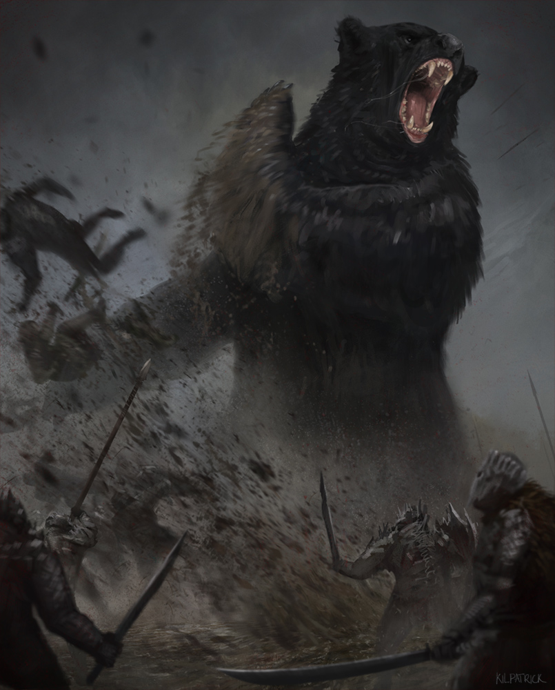 Beorn by JMKilpatrick